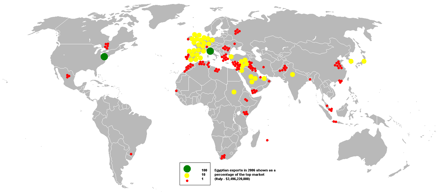 This bubble map shows the global distribution of Egyptian exports in 2006 as a percentage of the top market (Italy - $2,496,220,000). This map is consistent with incomplete set of data too as long as the top producer is known. It resolves the accessibility issues faced by colour-coded maps that may not be properly rendered in old computer screens. Data was extracted on 18th September 2007 from Based on :Image:BlankMap-World.png